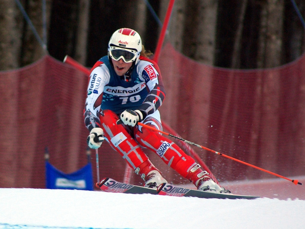 Finnish alpine skier Andreas Romar during the European Cup Giant Slalom in Hinterstoder, Austria on January 11, 2008.